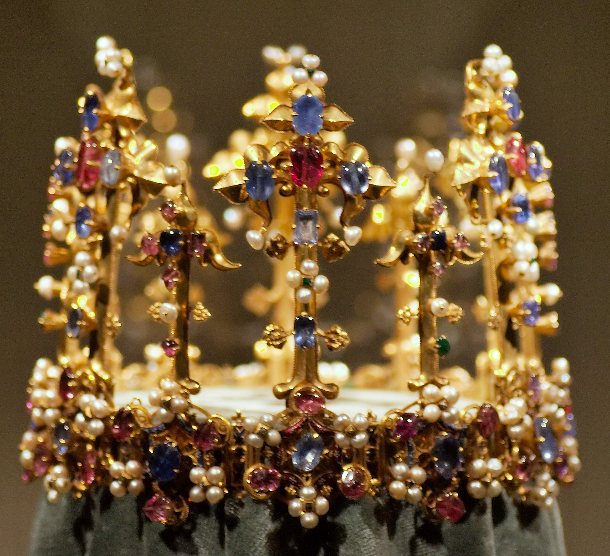 This crown of an English queen (known as Bohemian or Palatinate Crown) from 1370/80 is the oldest surviving crown of England. It came to Heidelberg as part of Princess Blanche's dowry and is now in the Munich Treasury.